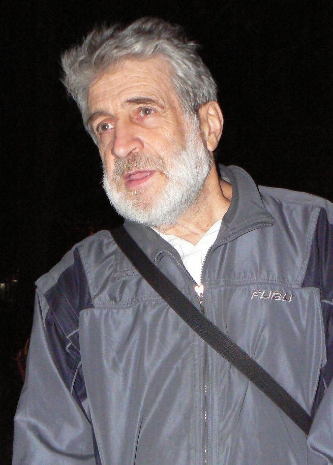 Bulgarian scientist and politician Prof. Peter Beron